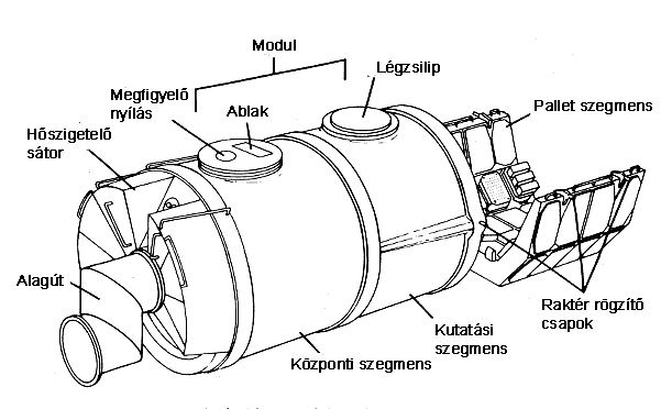 Diagram of the a typical Spacelab pallet section